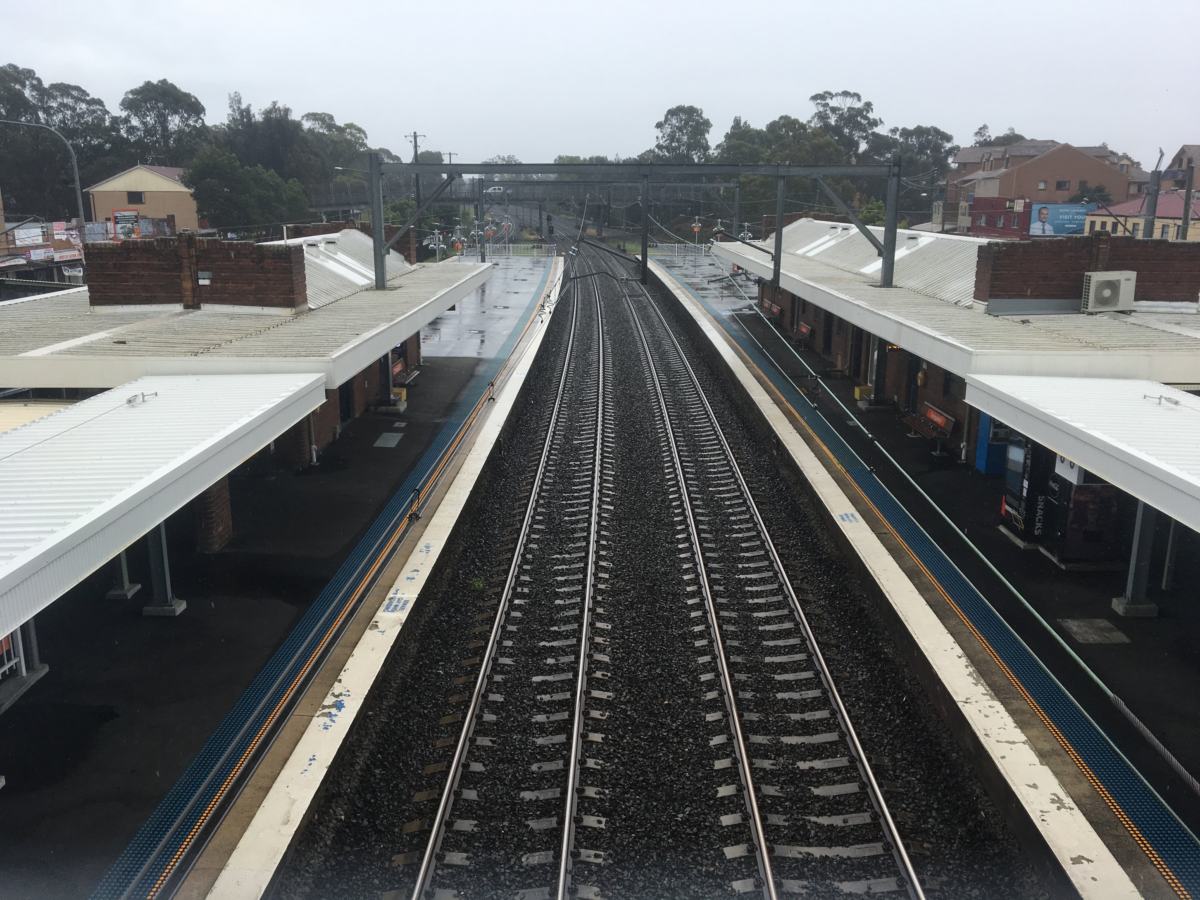 The track at Toongabbie railway station.